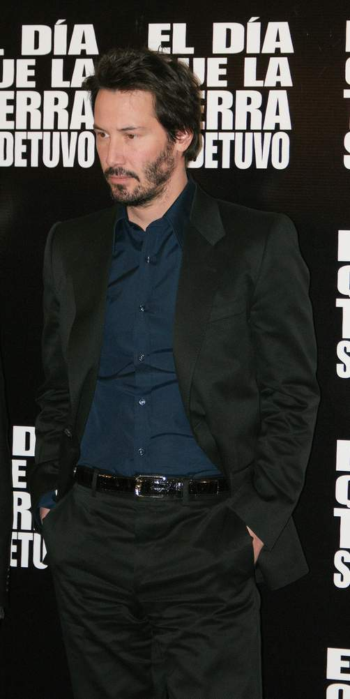 Actor Keanu Reeves in Mexico